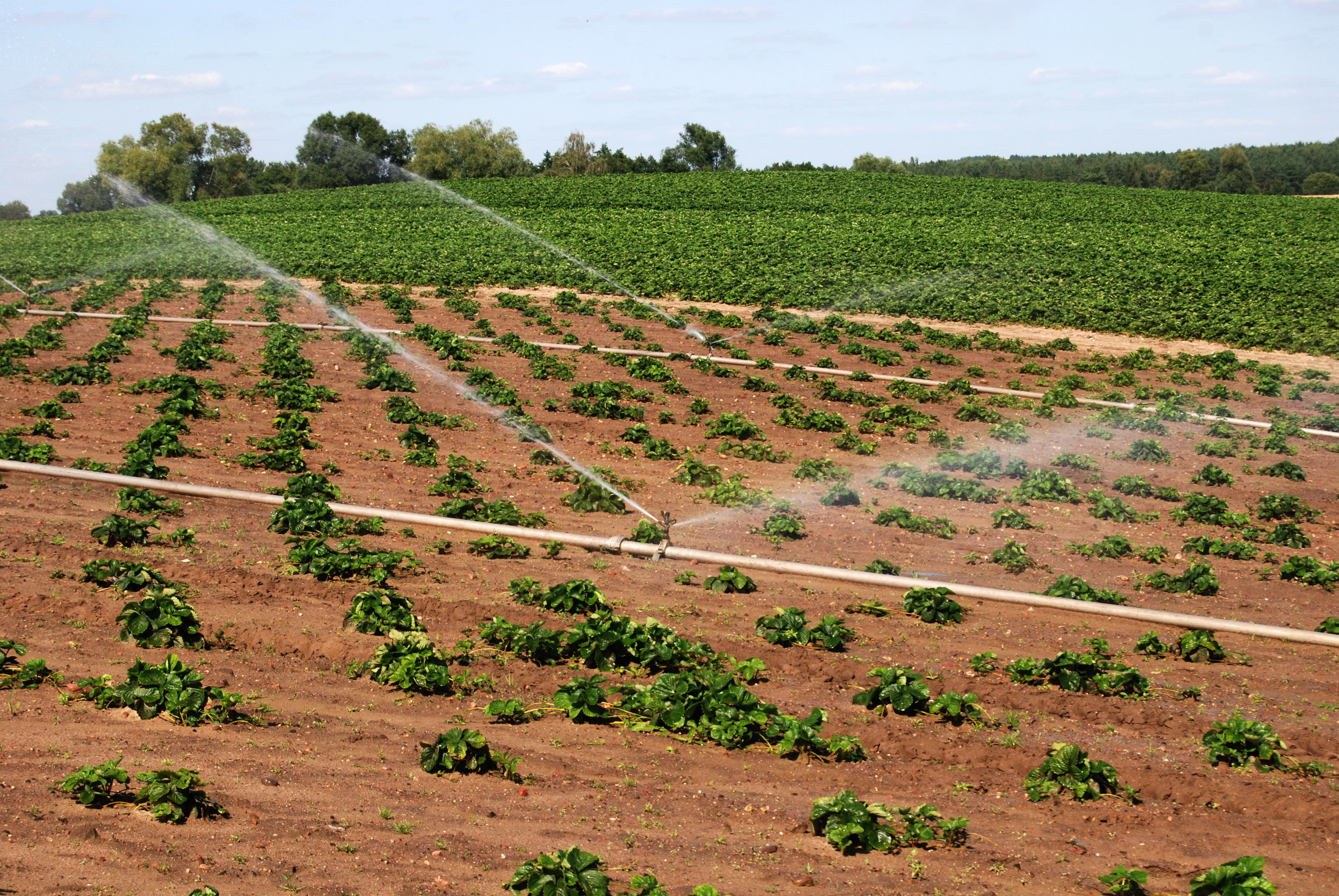 Podlewanie_II.